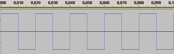 50Hz square wave 50Hz firkant-pulser